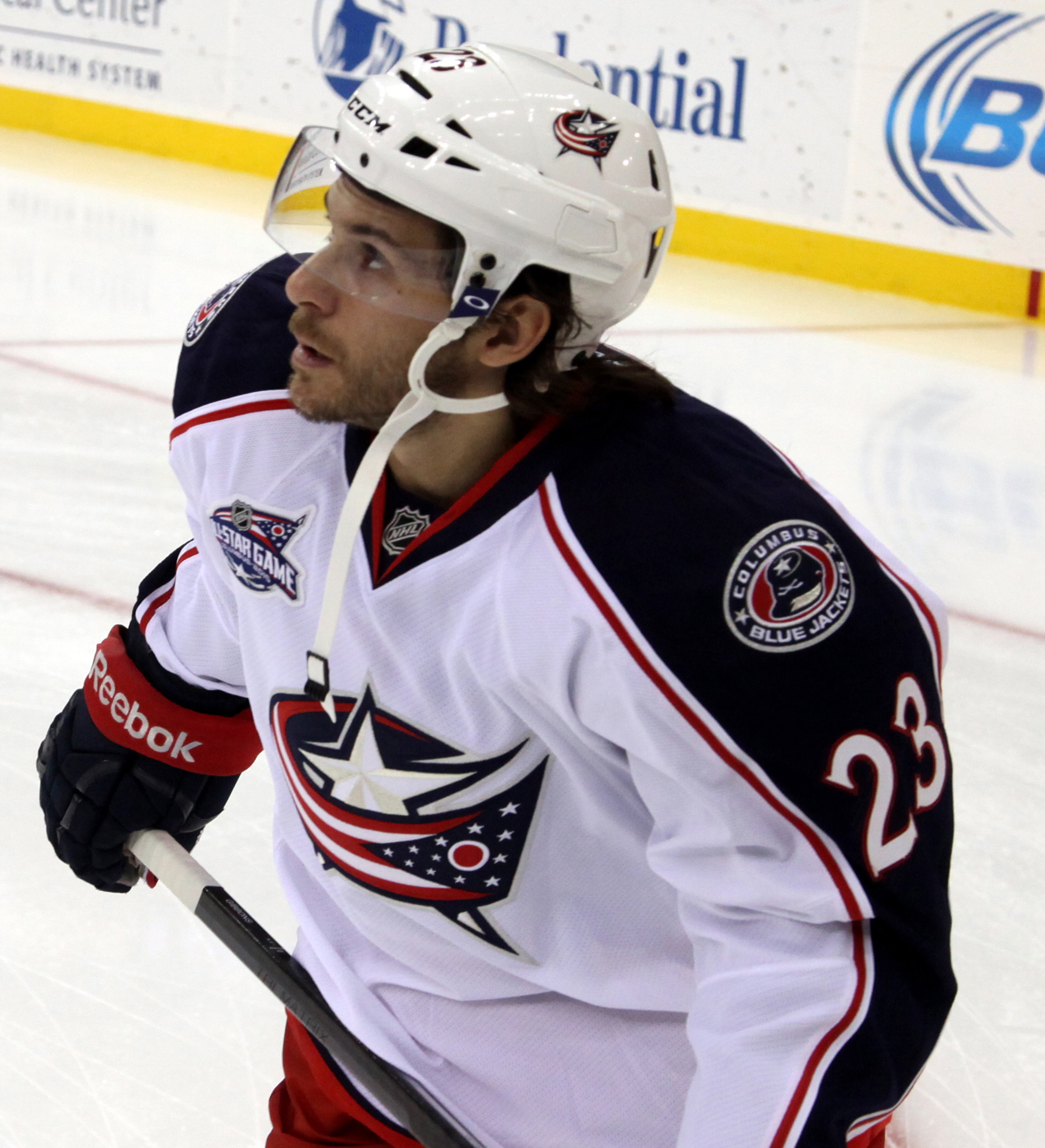 Brian Gibbons in November 2014.